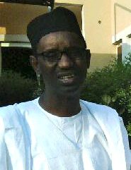 Nuhu Ribadu (Nigerian Politician in December 2010